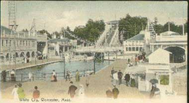 White City amusement park Worcester, Massachusetts